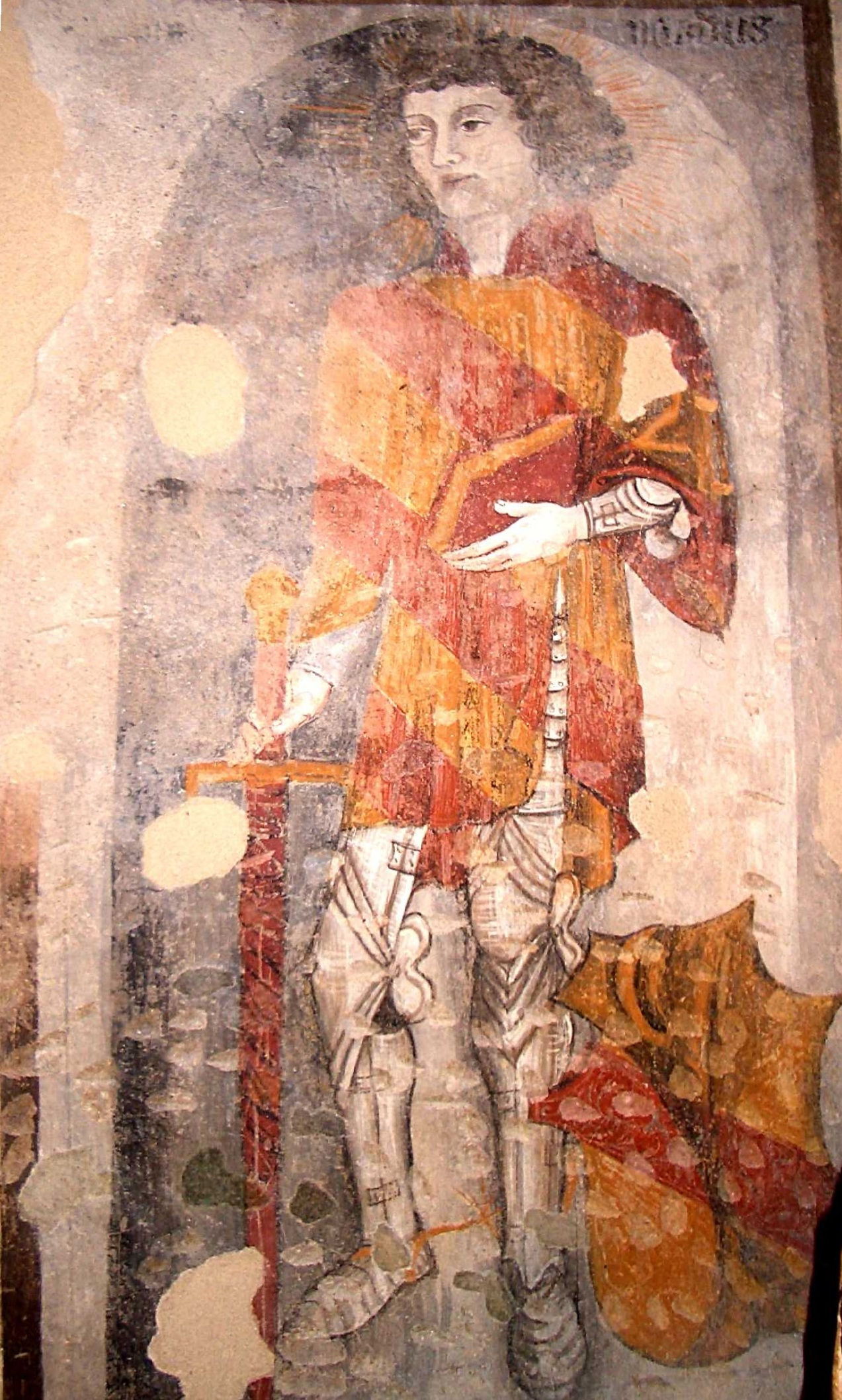 Unknown painter (second half of XV century), Saint James the Greater , frescoes in the apse of the church, Pieve di Santa Maria di Vespiolla, Baldissero Canavese (Turin)